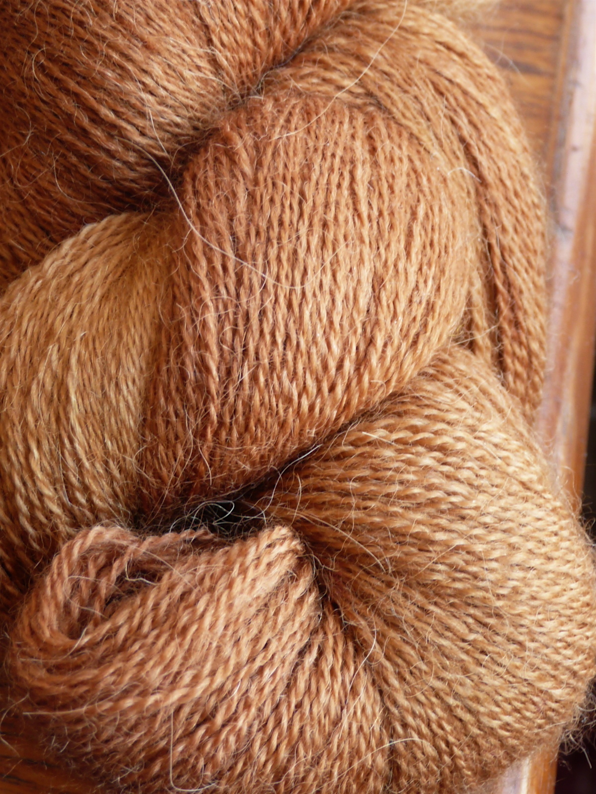 Cashmere blend yarn